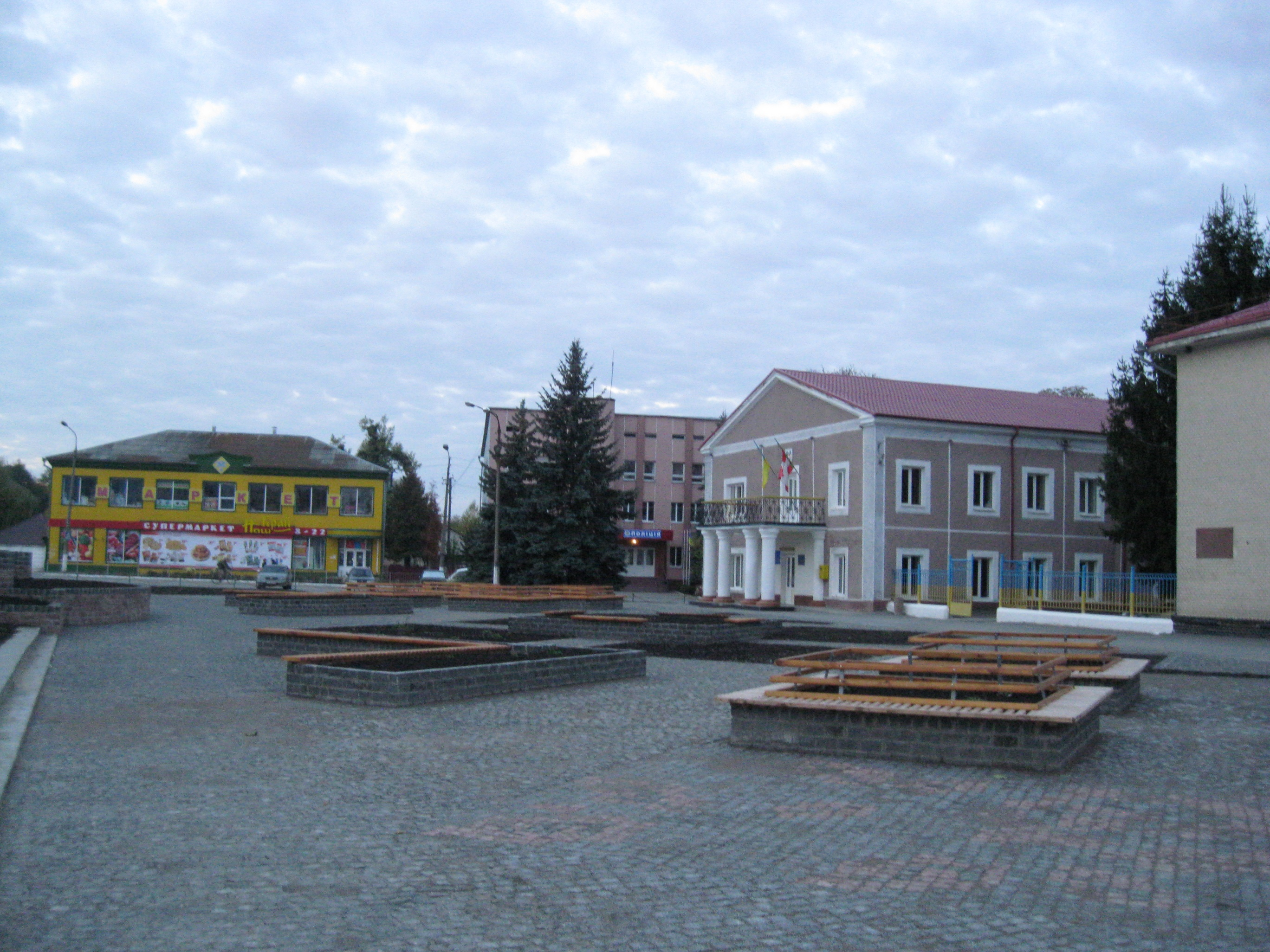 Izyaslav Central square